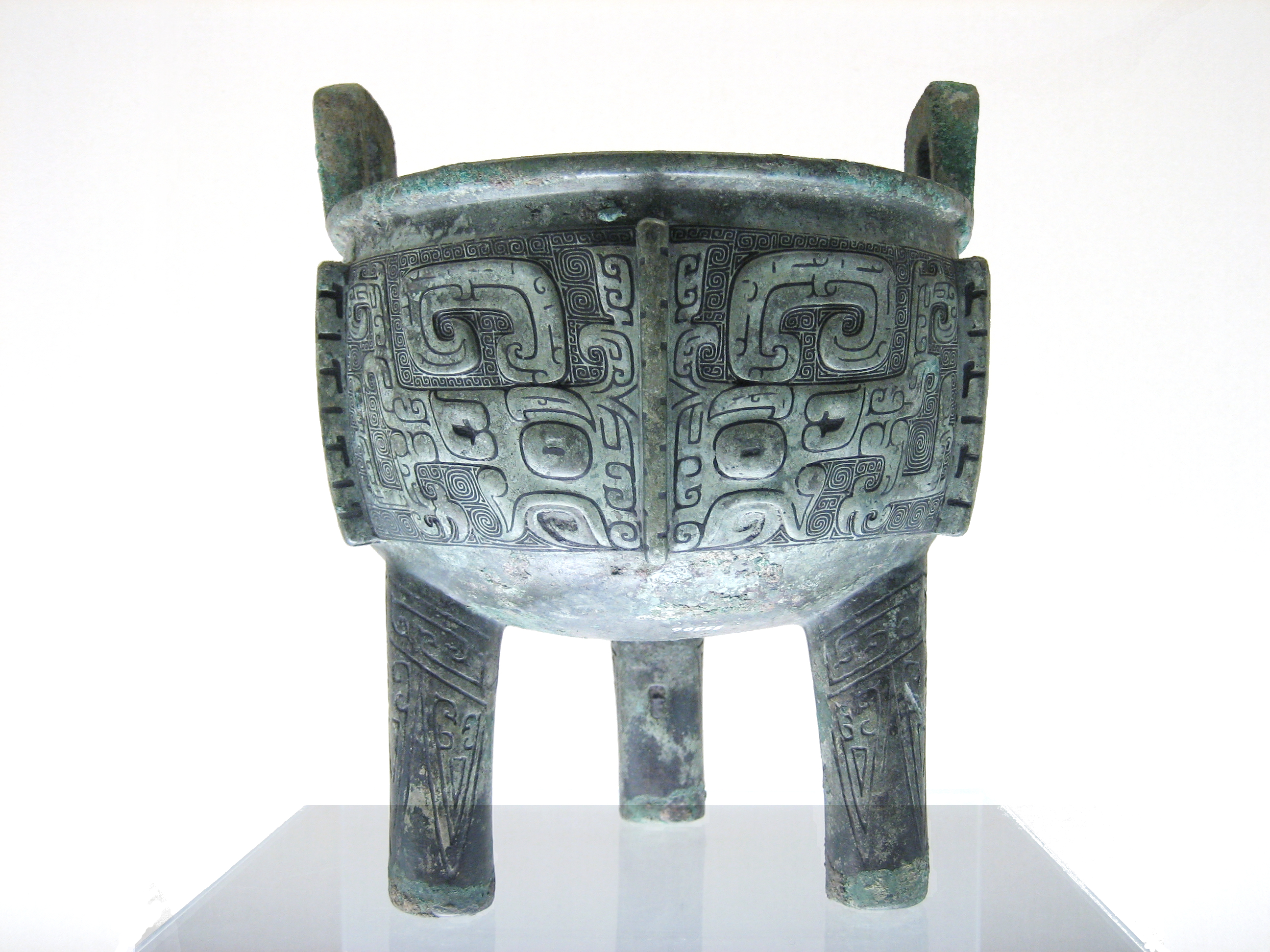 Liu Ding, Last Shang Dynasty, by Mountain at Shanghai Museum